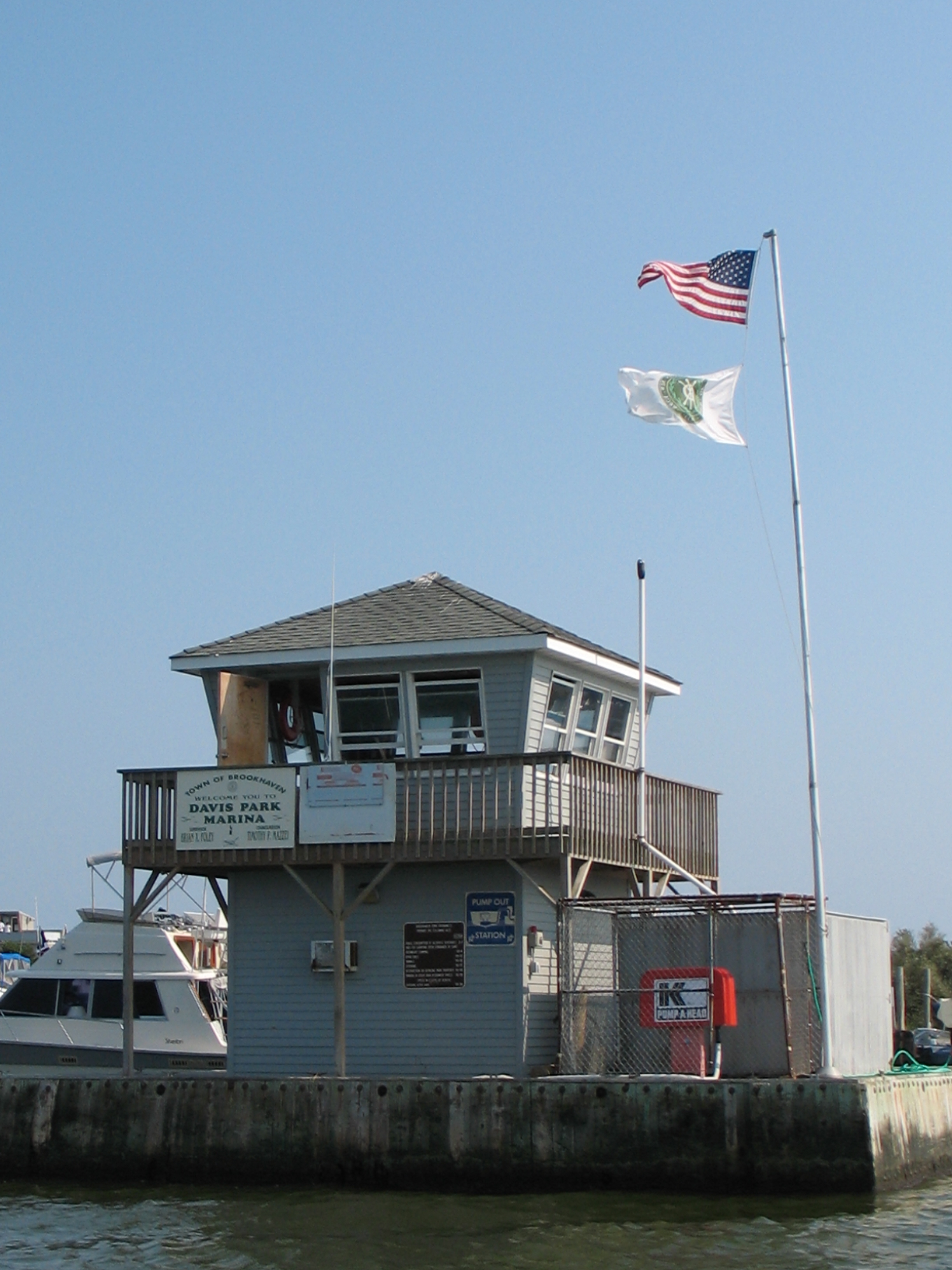 Davis Park, NY by ... Stevan